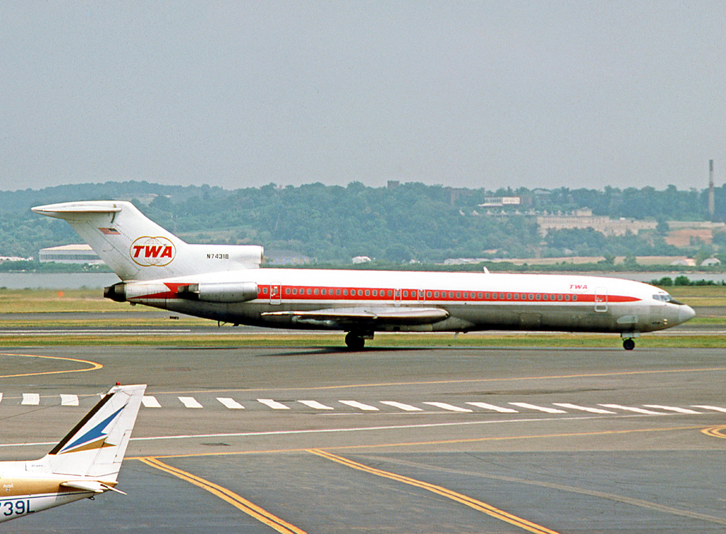 Boeing 727-231 N74318 of Trans World Airlines at Washington National Airport in 1975